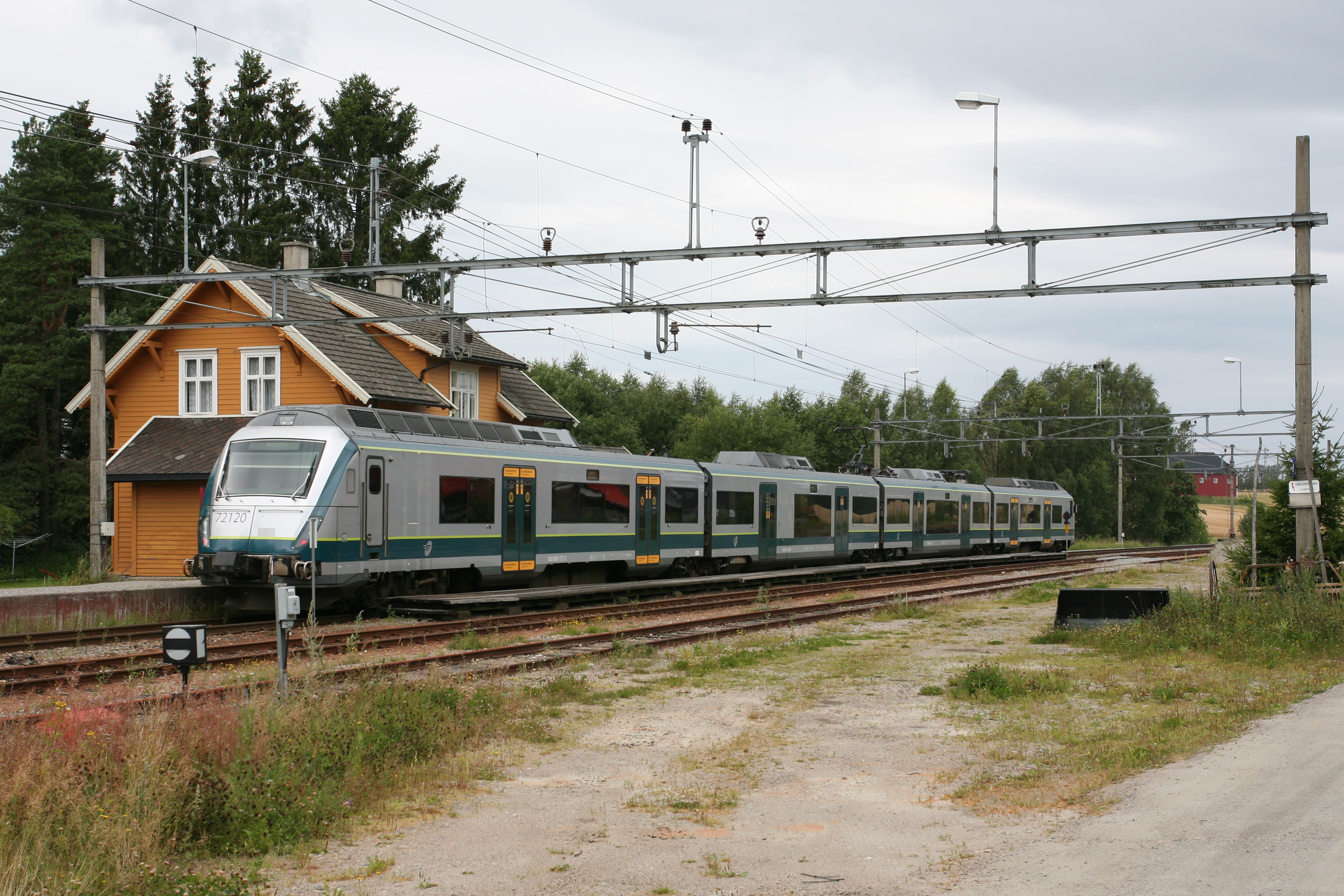 Commuter train at Kråkstad Railway Station (Norway)